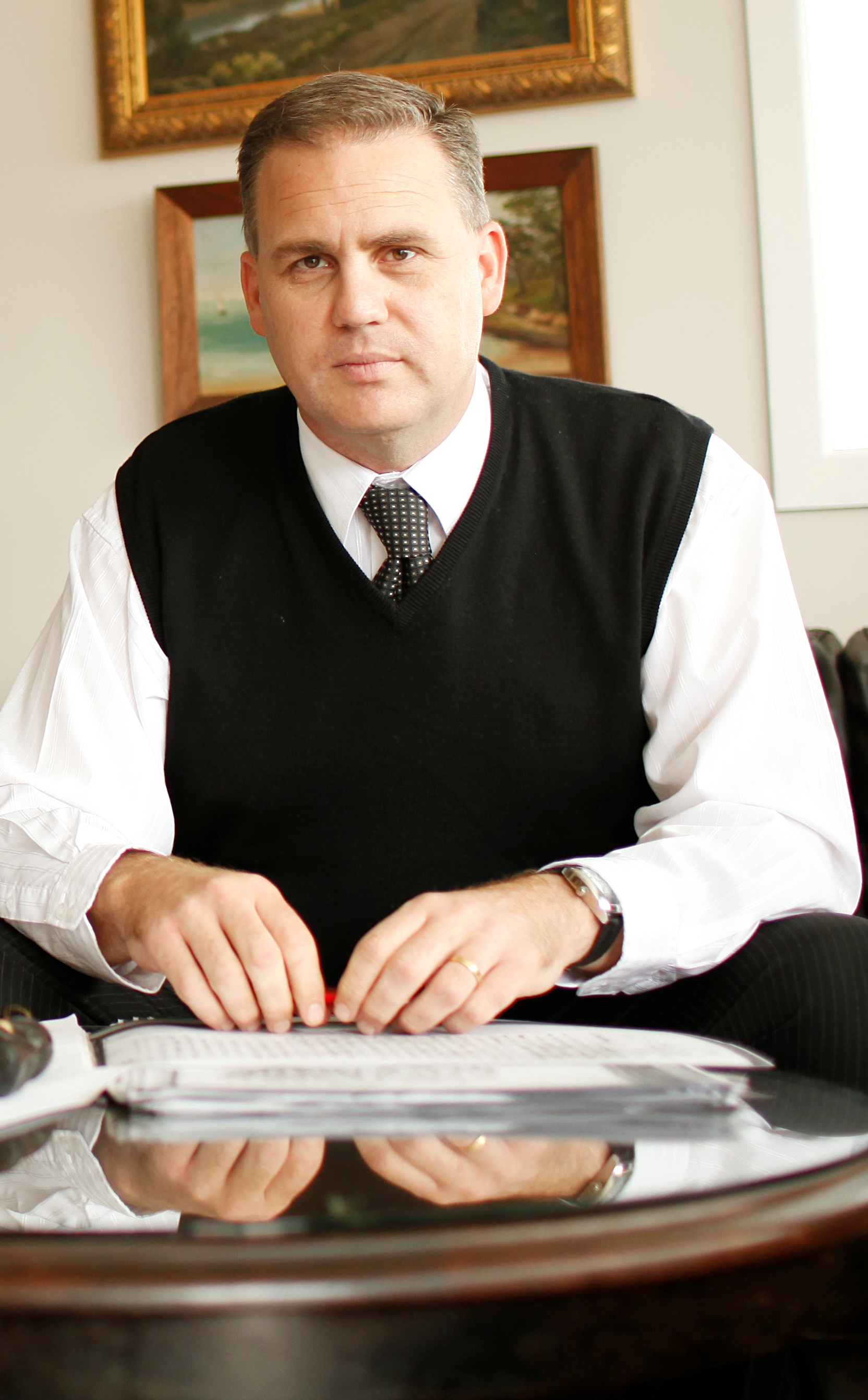 Photograph of New Zealand Historian Professor Paul Moon